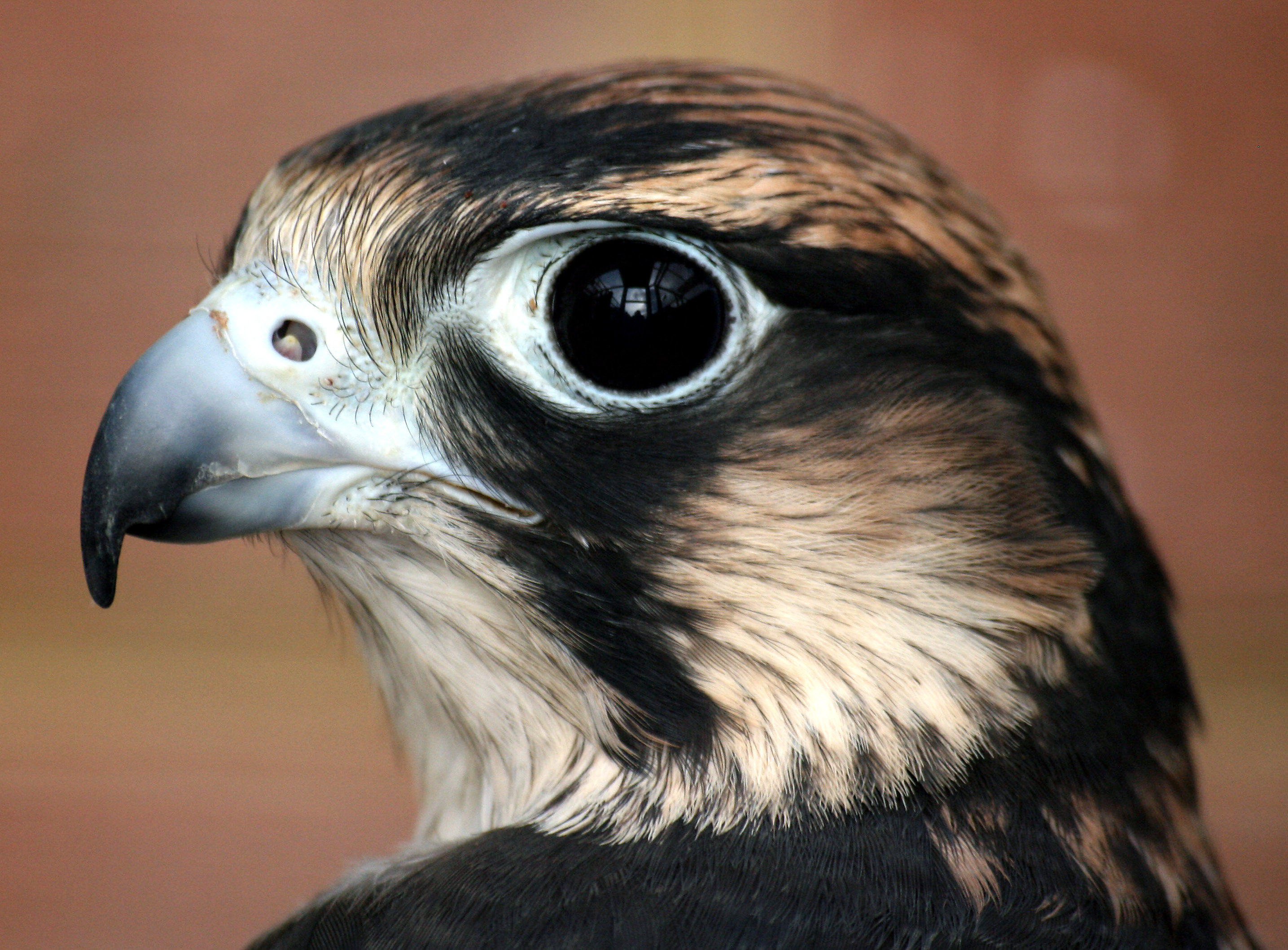 Saker Falcon(Falco cherrug). Shot at Eagle Heights Wildlife Park, Kent, England.